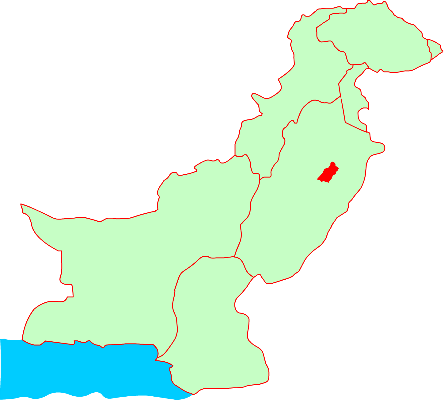 Location of Faisalabad